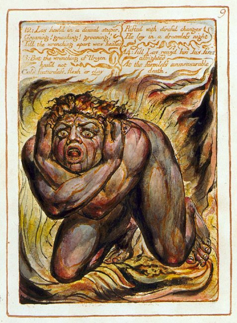 The First Book of Urizen, copy "G", plate 9. Relief Etching with monotyped color. In the Collection of the Library of Congress. Object 9 (Bentley 7, Erdman 7, Keynes 7)